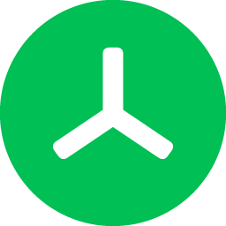 TreeSize Professional icon.